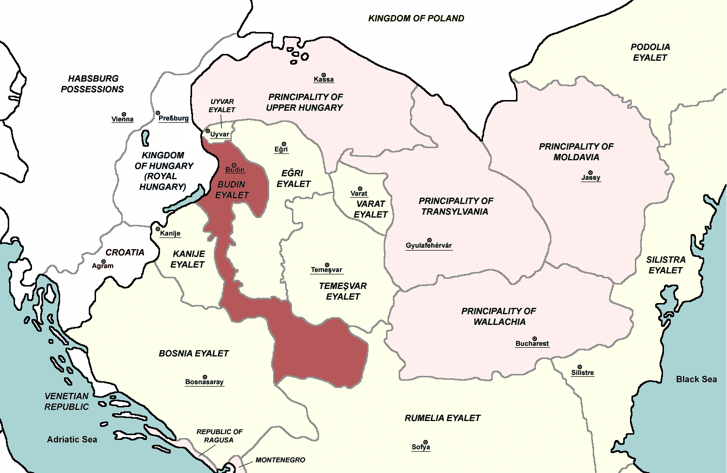 Budin Eyalet in 1683. Tributary states of the Ottoman Empire are shown in pink.